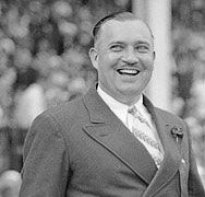 Cropped from Miss Toronto Beauty Contest, 1938. C.N.E. Grandstand. Dianne Perkins, Miss Toronto 1938, with Mayor Ralph C. Day